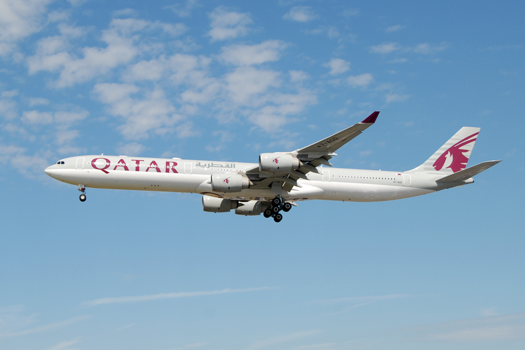 A7-AGD Airbus A340-642X msn 798 operated by Qatar Airways and seen on short finals for 27R at London Heathrow (LHR/EGLL).